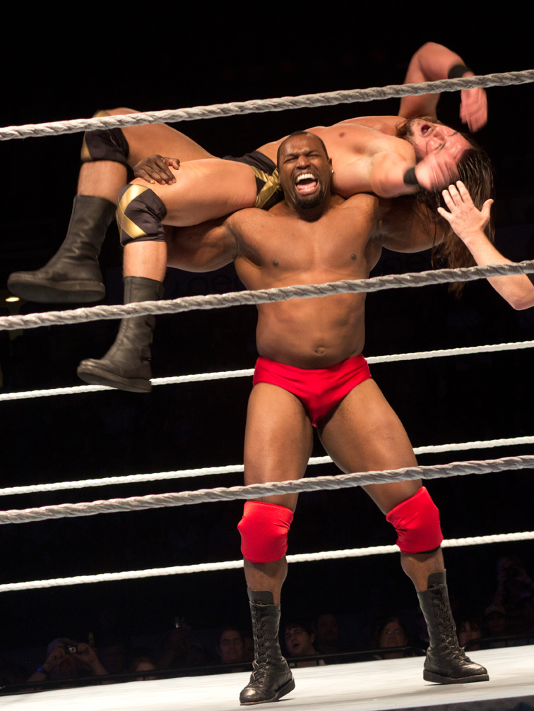 Ezekiel Jackson performing a Torture Rack submission hold on Drew McIntyre at a WWE house show in January 2012 in Montgomery, Alabama. Cropped from original.